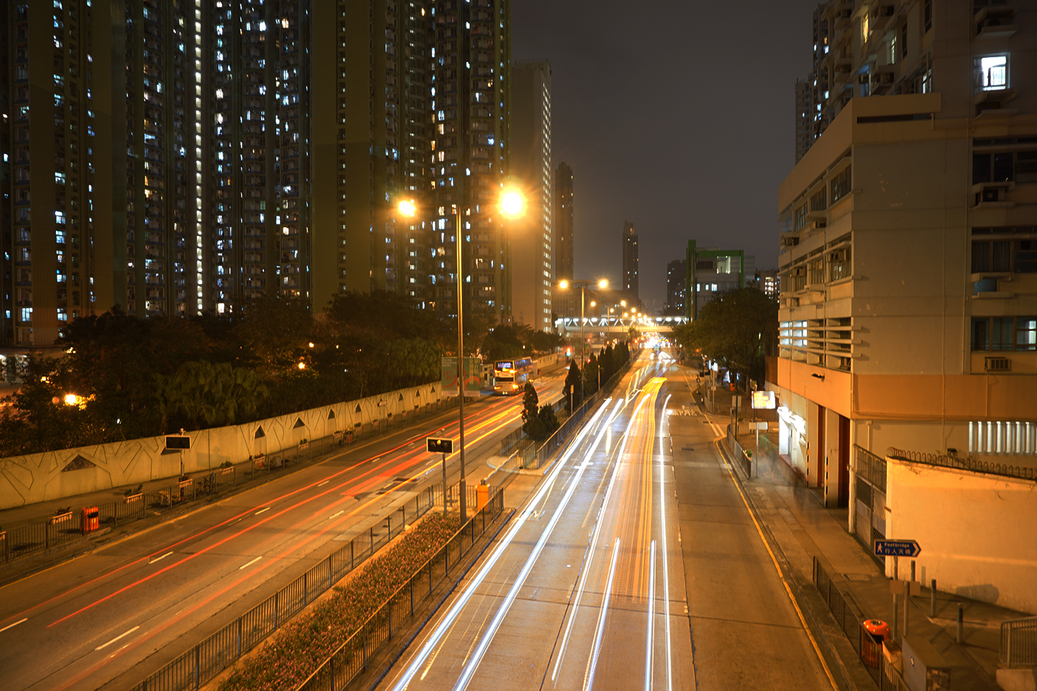 Cheung Sha Wan Road in Cheung Sha Wan, Hong Kong.